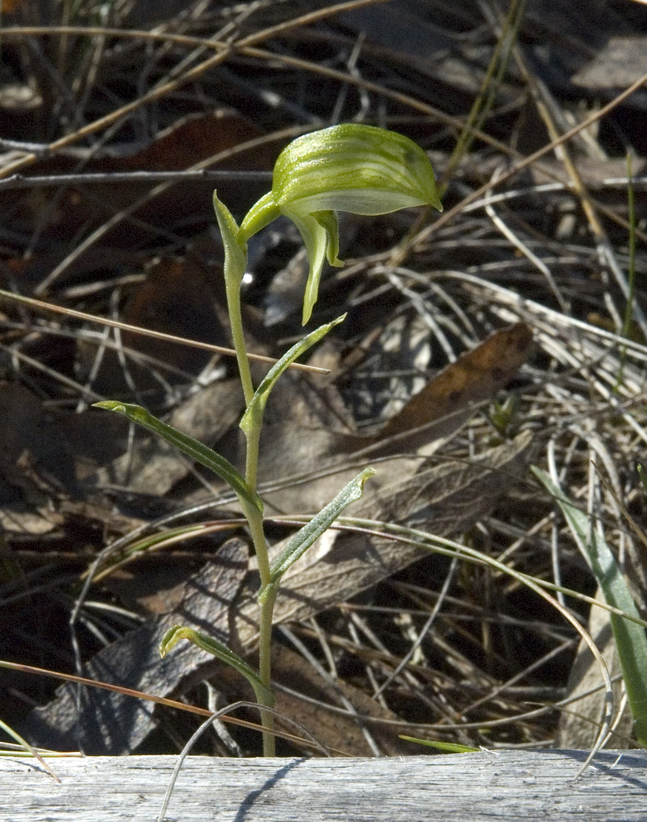 Green-lip greenhood orchid, Pterostylis stenochila (which I originally mis-identified as a young Black-stripped Greenhood)